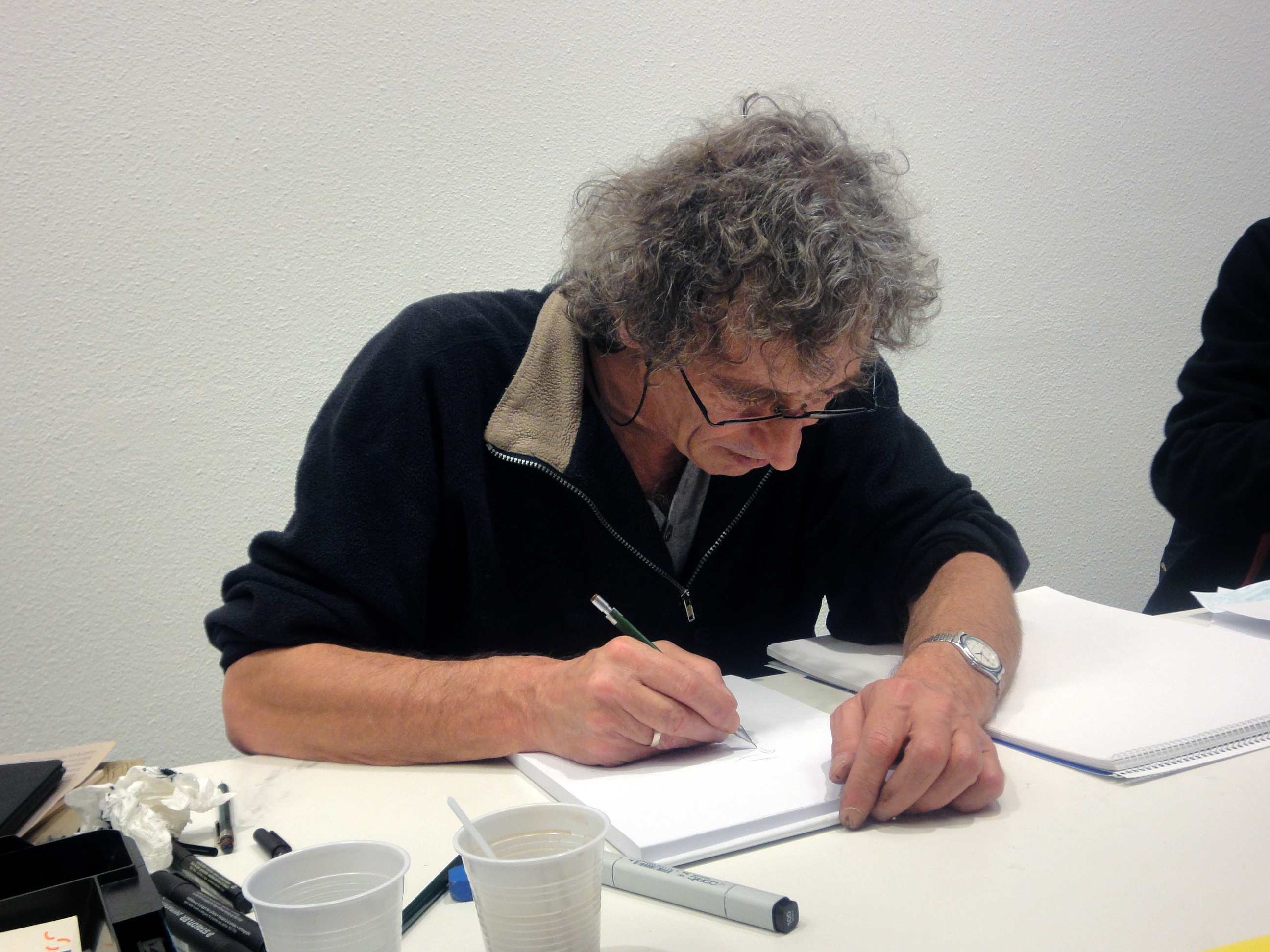 Drawing on demand at the Liberation day festival